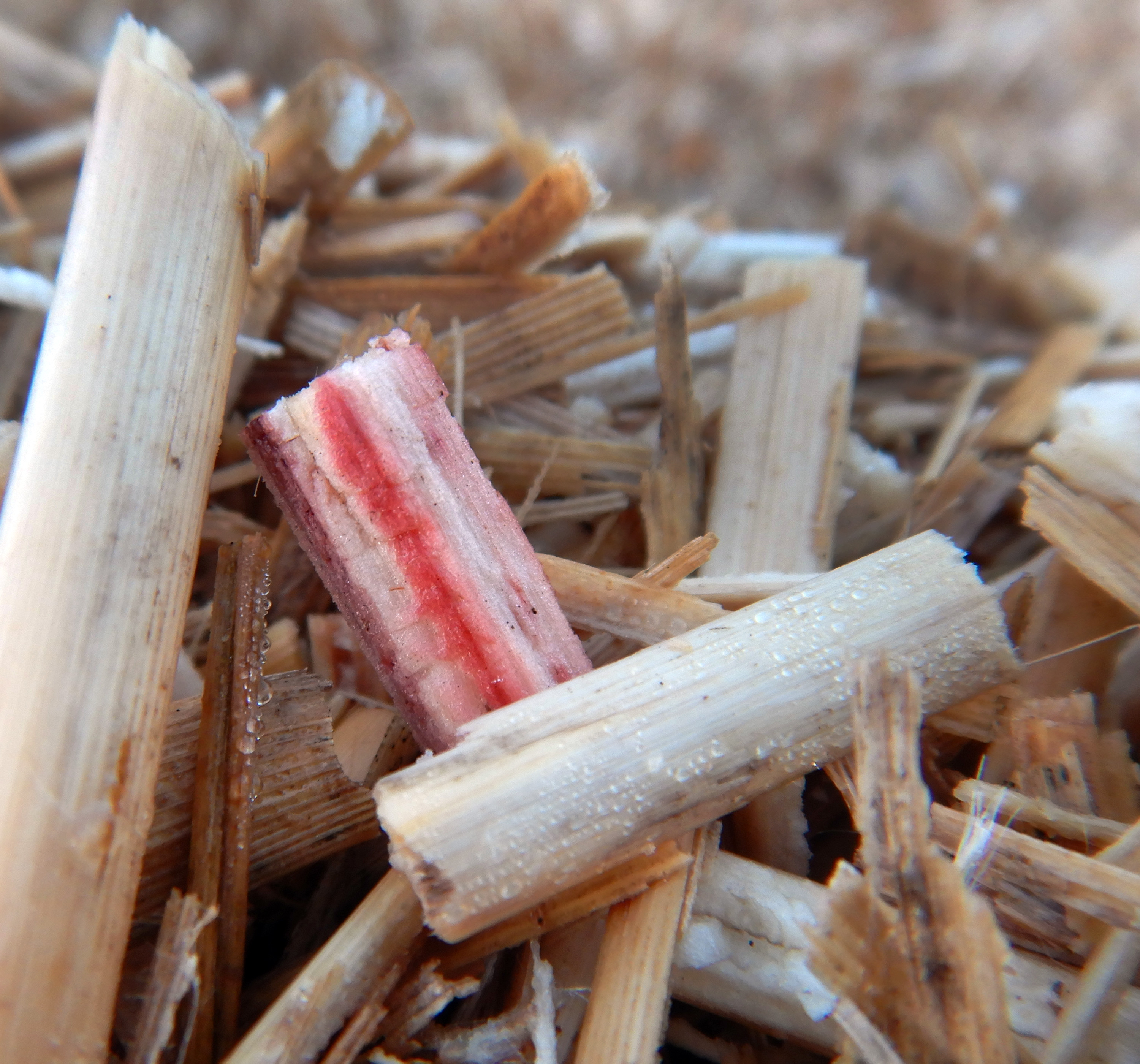 Miscanthus ground for use in mulch, in Lille (Northern France), 2018 Lamiot